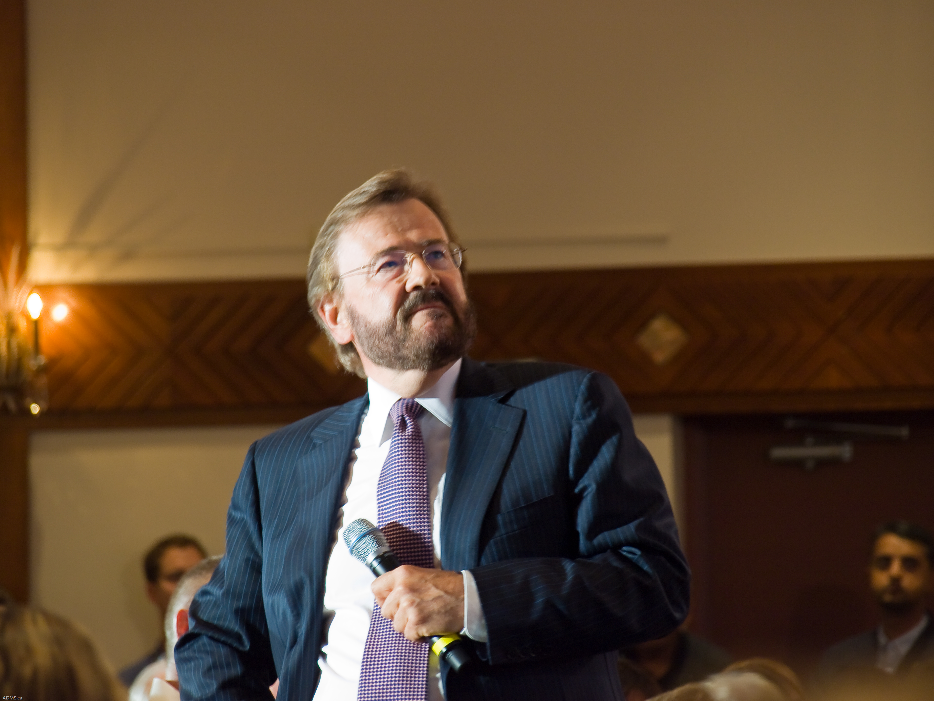 MP Garth Turner listens attentively to Opposition leader Dion's response to a question from a member of the general public during a town hall meeting in Oakville, Ontario.